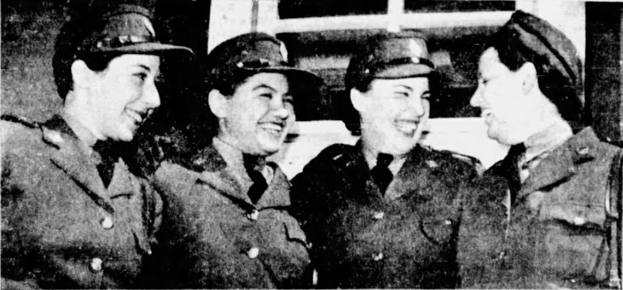 From left to right: Melba Davidson, Mary Greyeyes, Fern Davidson and Alice Mackie of the Canadian Women's Army Corps (CWAC). These CWAC members (all from Saskatchewan and all holding the rank of "private") had just arrived in Britain as part of a larger contingent of armed forces.